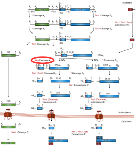 This image highlights RNase MRP's Cleavage of A3 in the pre-rRNA Processing Pathway.